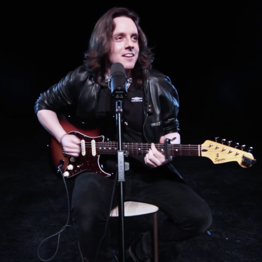 Jamie Kimmett performing live at Palace Theartre, Kilmarnock, Scotland.